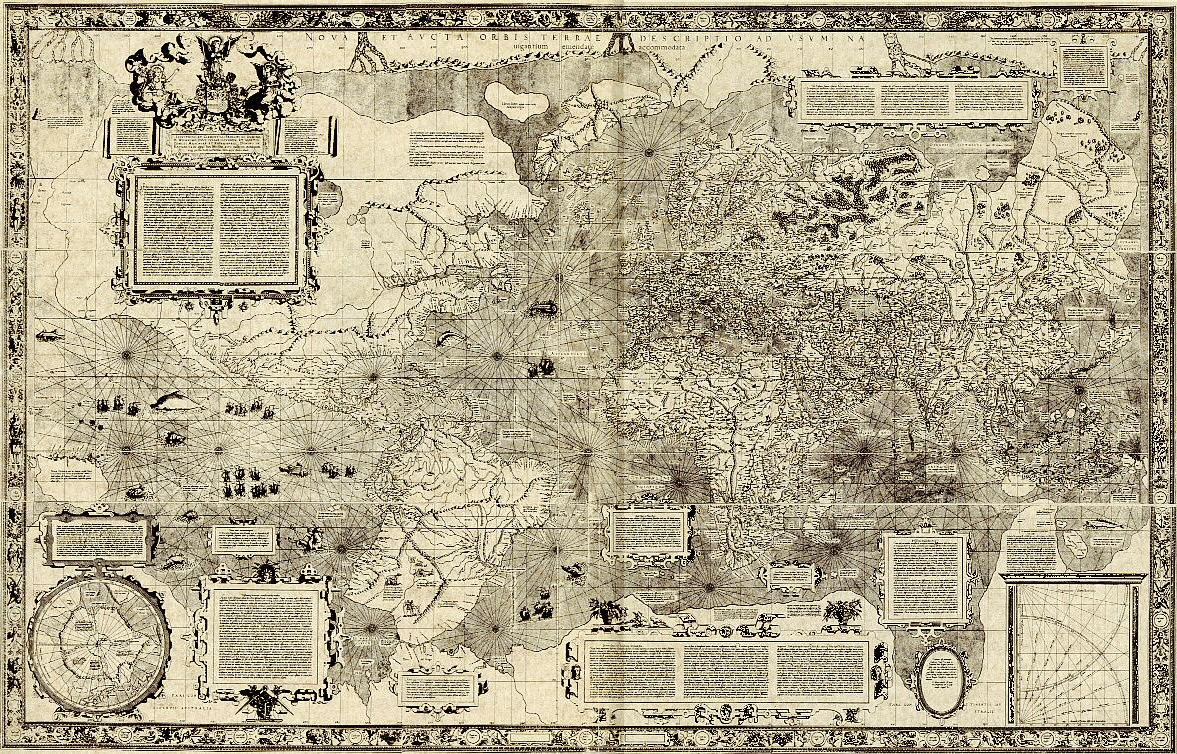 Low resolution scan of the Mercator map of 1569. Copied from with the permission of Wilhelm Kruecken